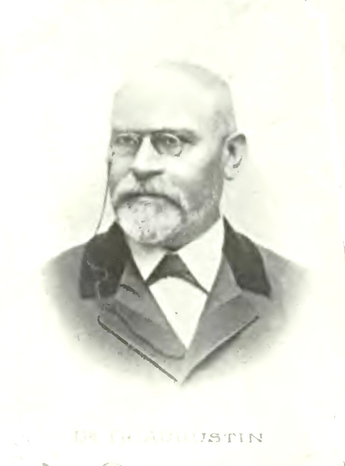 Portrait of František Augustin (1846-1908), Czech meteorologist and climatologist.